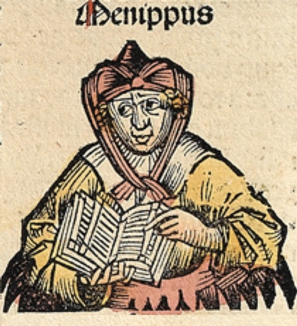 Ancient Greek philosopher Menippus, depicted in the Nuremberg Chronicle